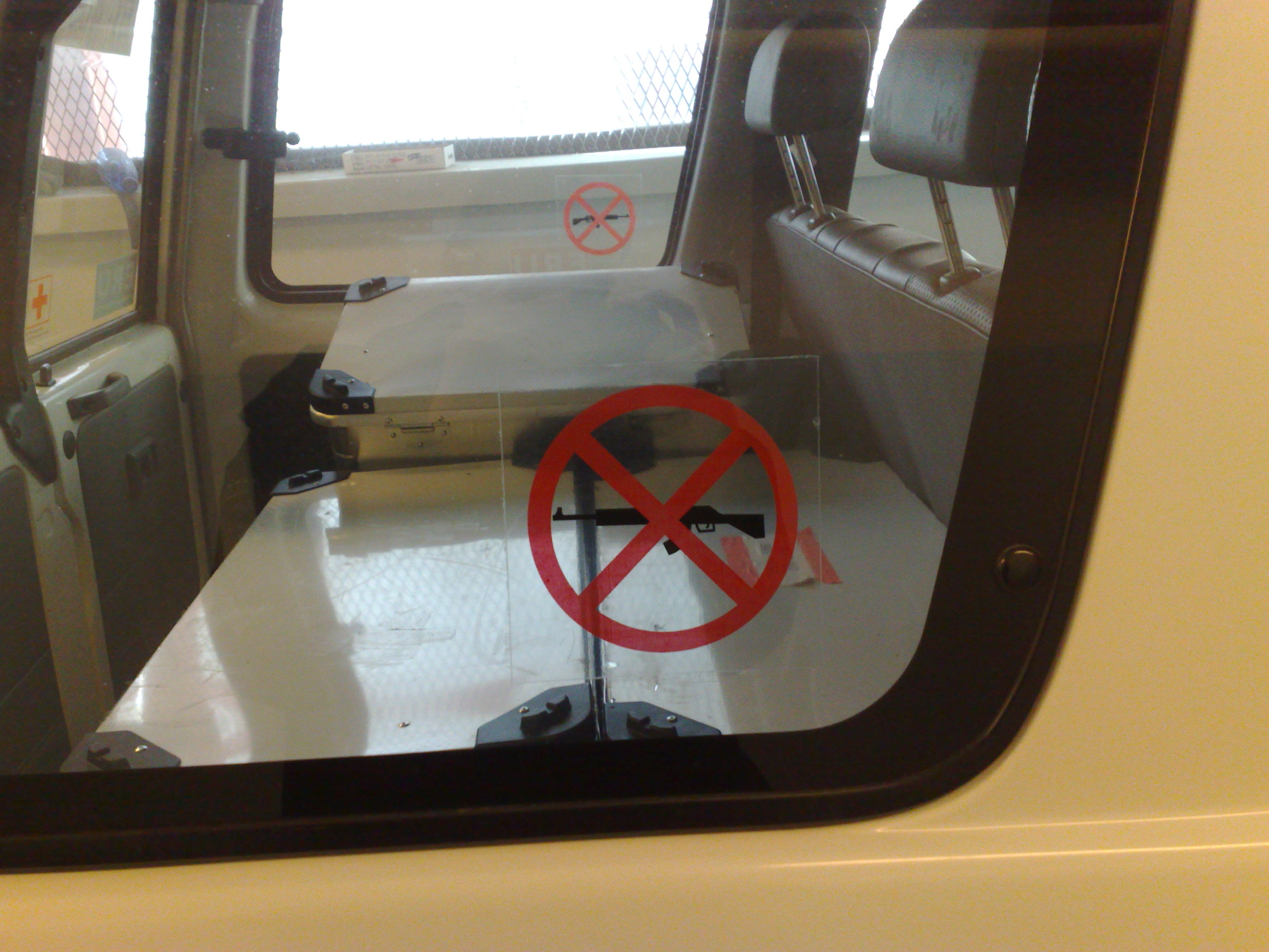 From the Logistics Centre of the Finnish Red Cross in Kalkku, Tampere, Finland.